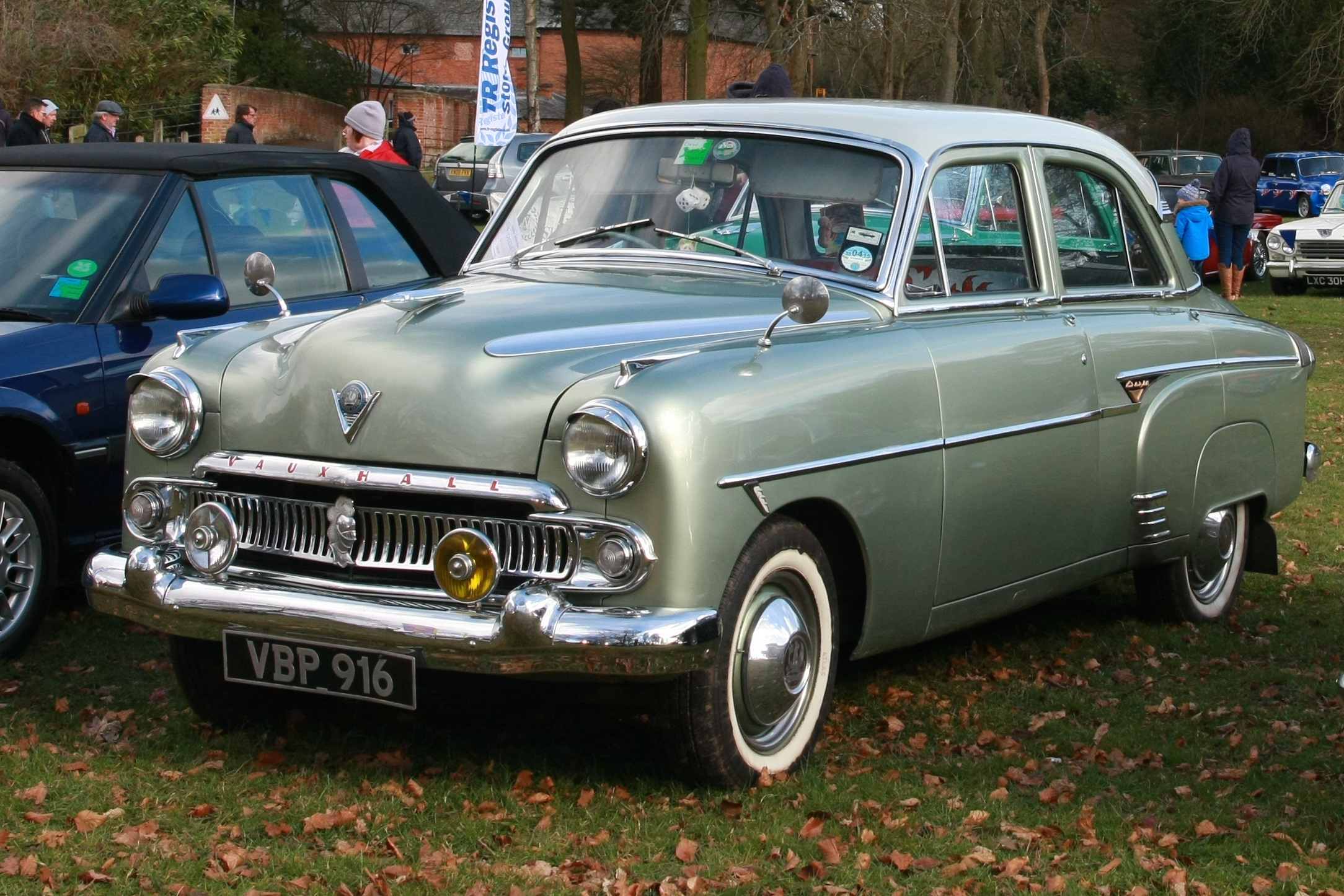 Vauxhall Cresta (1956) at Weston Park (2016)